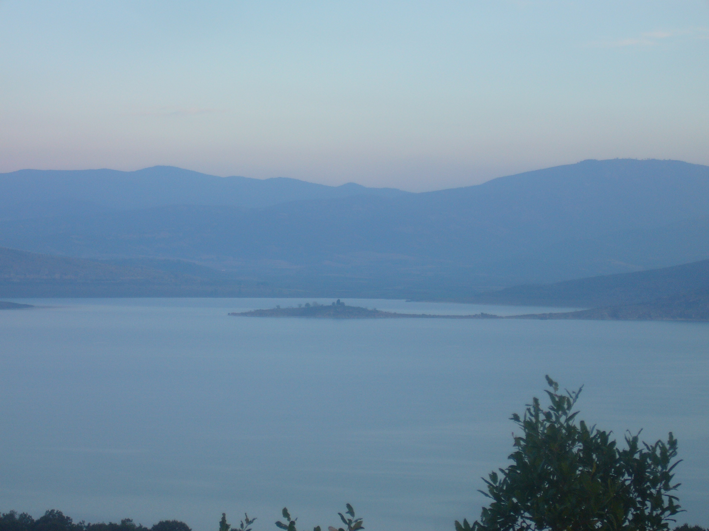 Lake of Vegoritida/Ostrovo, Aegean Macedonia.